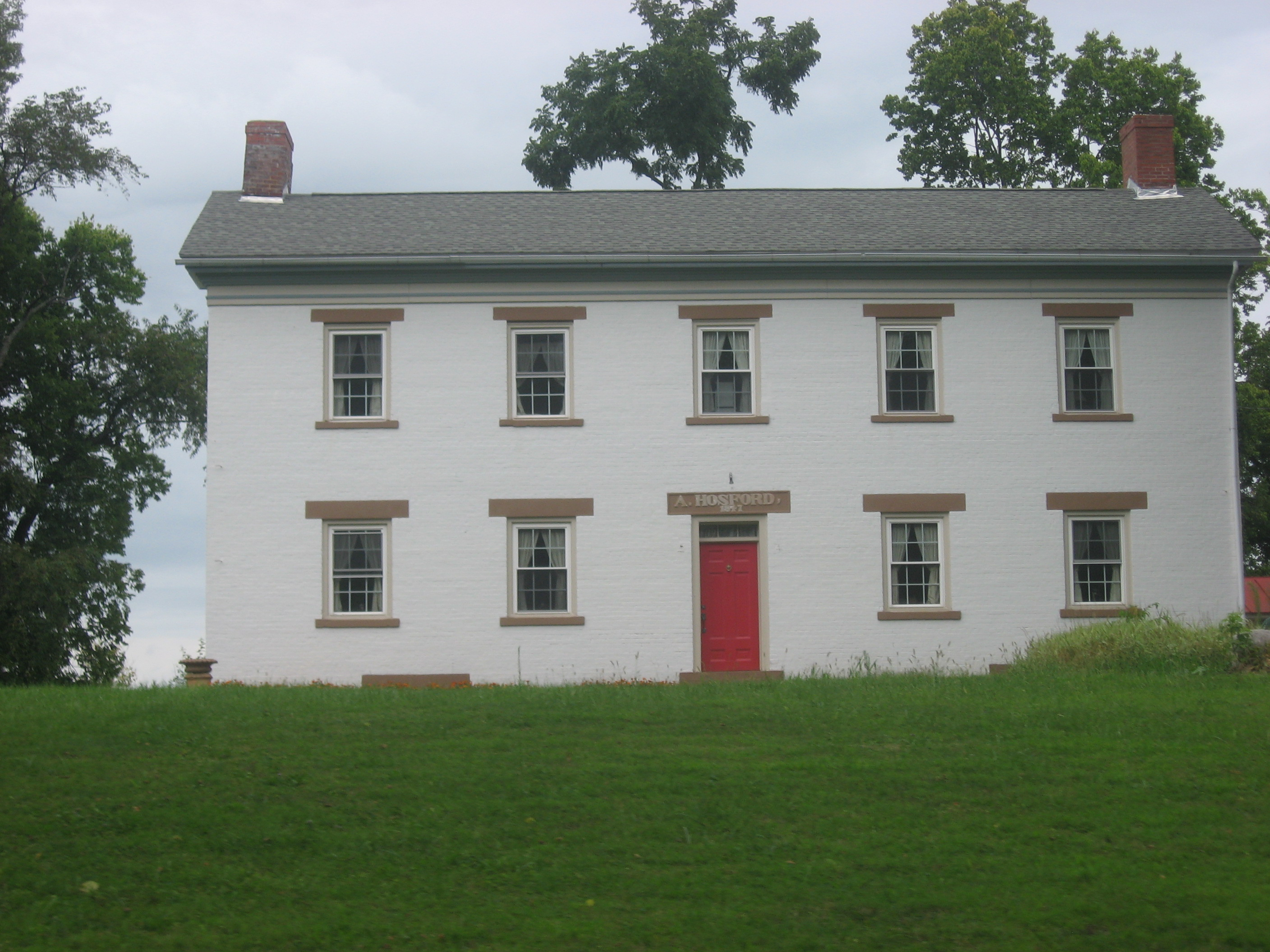 Front of the Hosford House, located at 6288 Hosford Road southwest of Galion in Polk Township, Crawford County, Ohio, United States. Built in 1847, it is listed on the National Register of Historic Places.